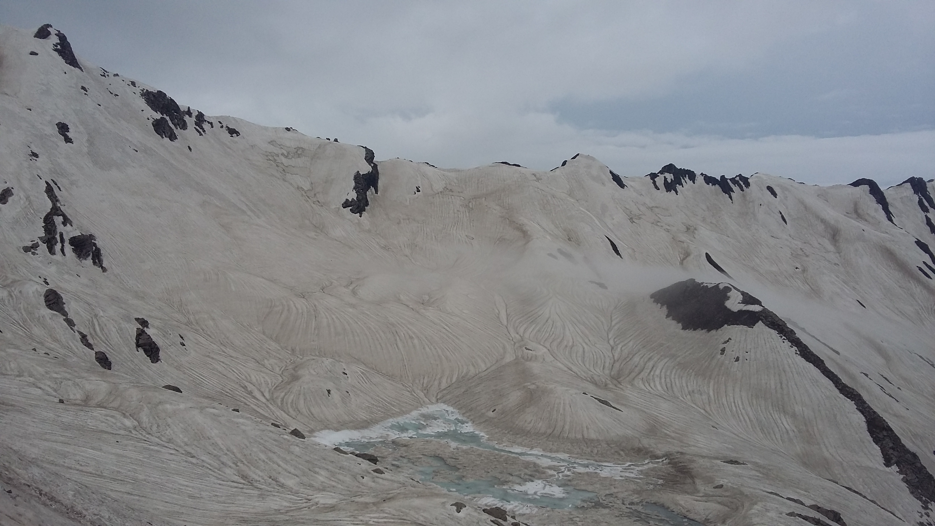 This is a rare view of Nain Sarowar without cloud. Nain Sarowar is a lake situated at 16,000 feet above see level, in the trail of Shrikhand Mahadev Kailash Peak In Himachal Pradesh India. The lake is dedicated to Goddess Parvati wife of Lord Shiva.